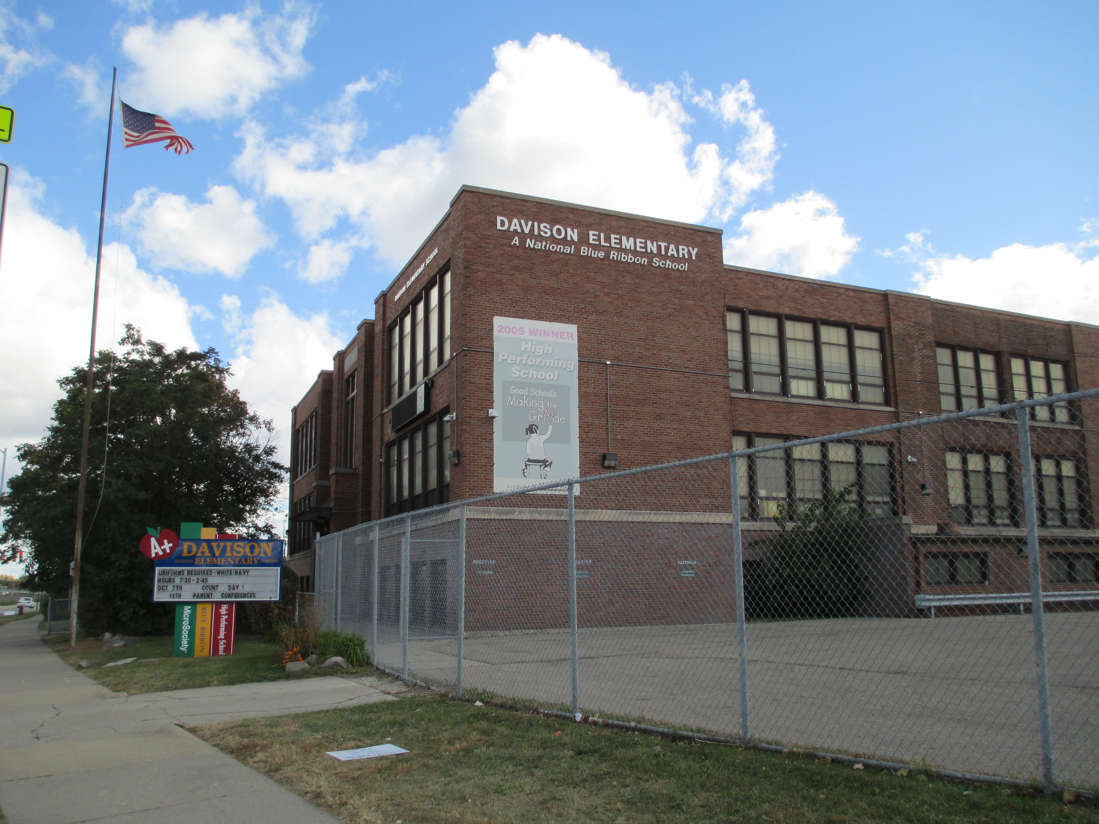 Davison Elementary school located at: 2800 E Davison St, Detroit, MI 48212